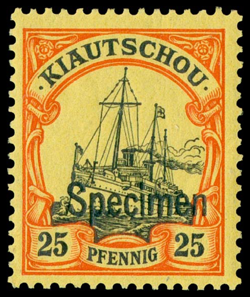 Postage stamp of German leased territory of Kiautschou in China with 'Specimen' overprint, SMY Hohenzollern, 25 pfennigs, 1901